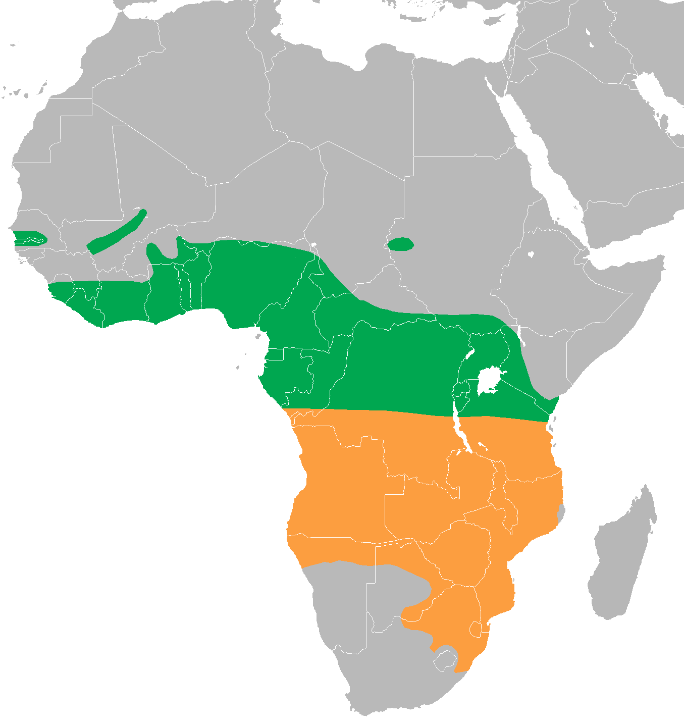 African crake (Crex egregia) distribution map